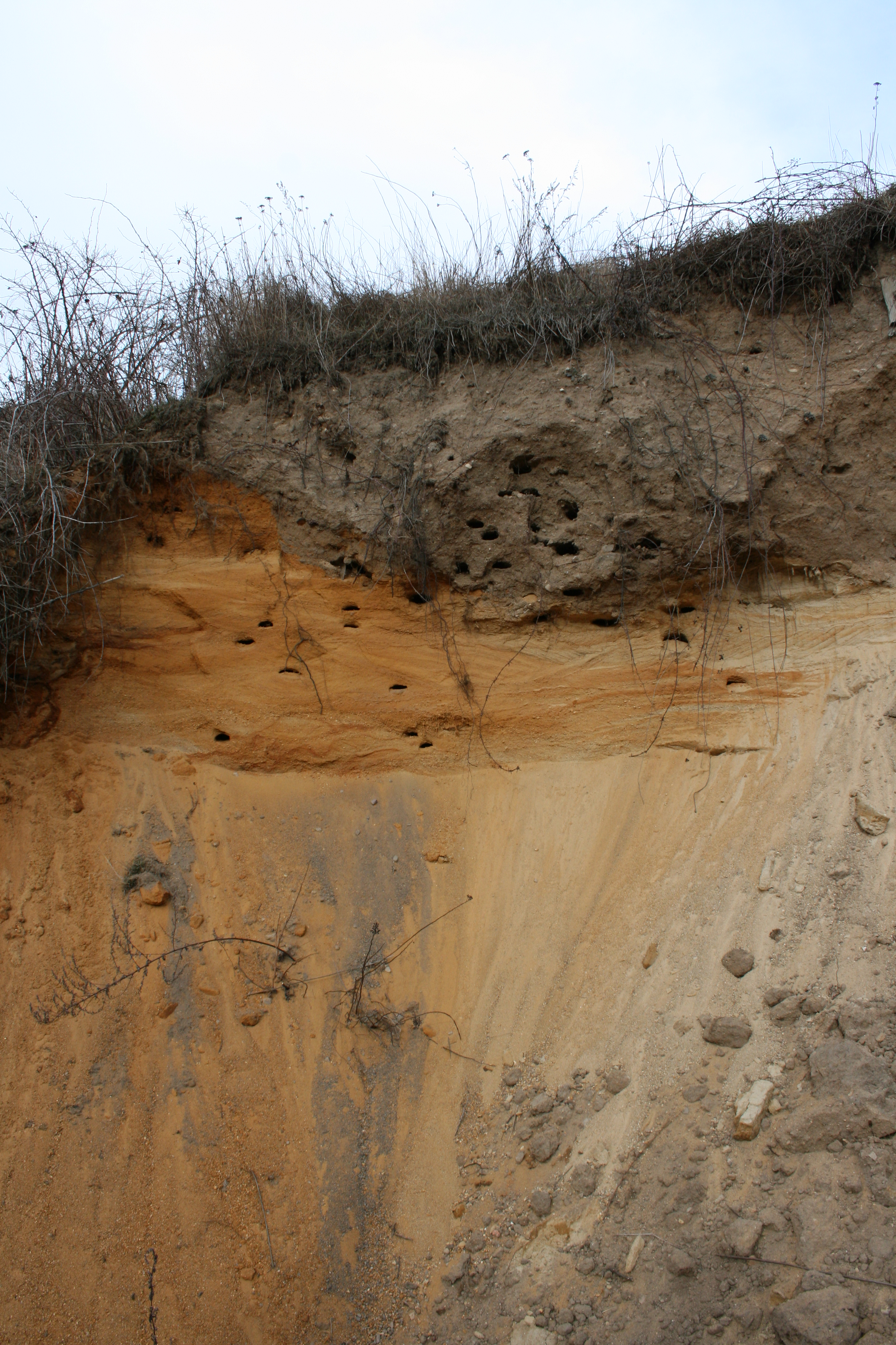 Natural reservation Pískovna na cvičišti near to Jindřichův Hradec, Jindřichův Hradec District, Czech Republic.